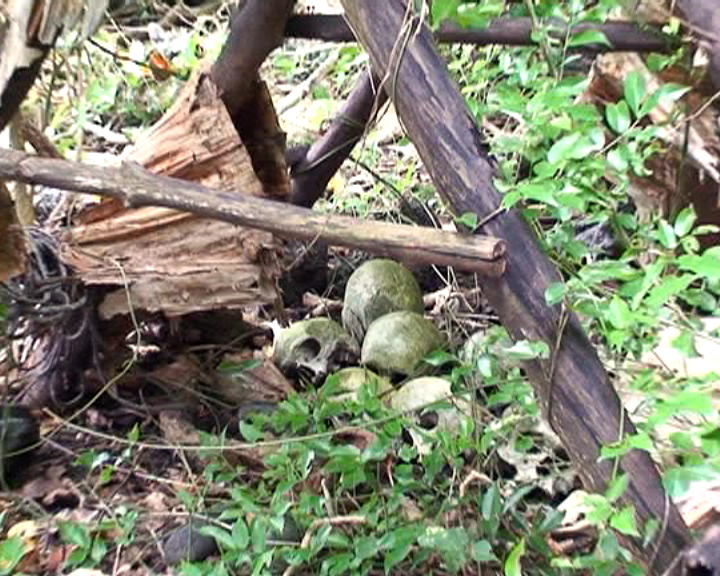 One of the locations of the Priest's skulls on Laulasi ISland